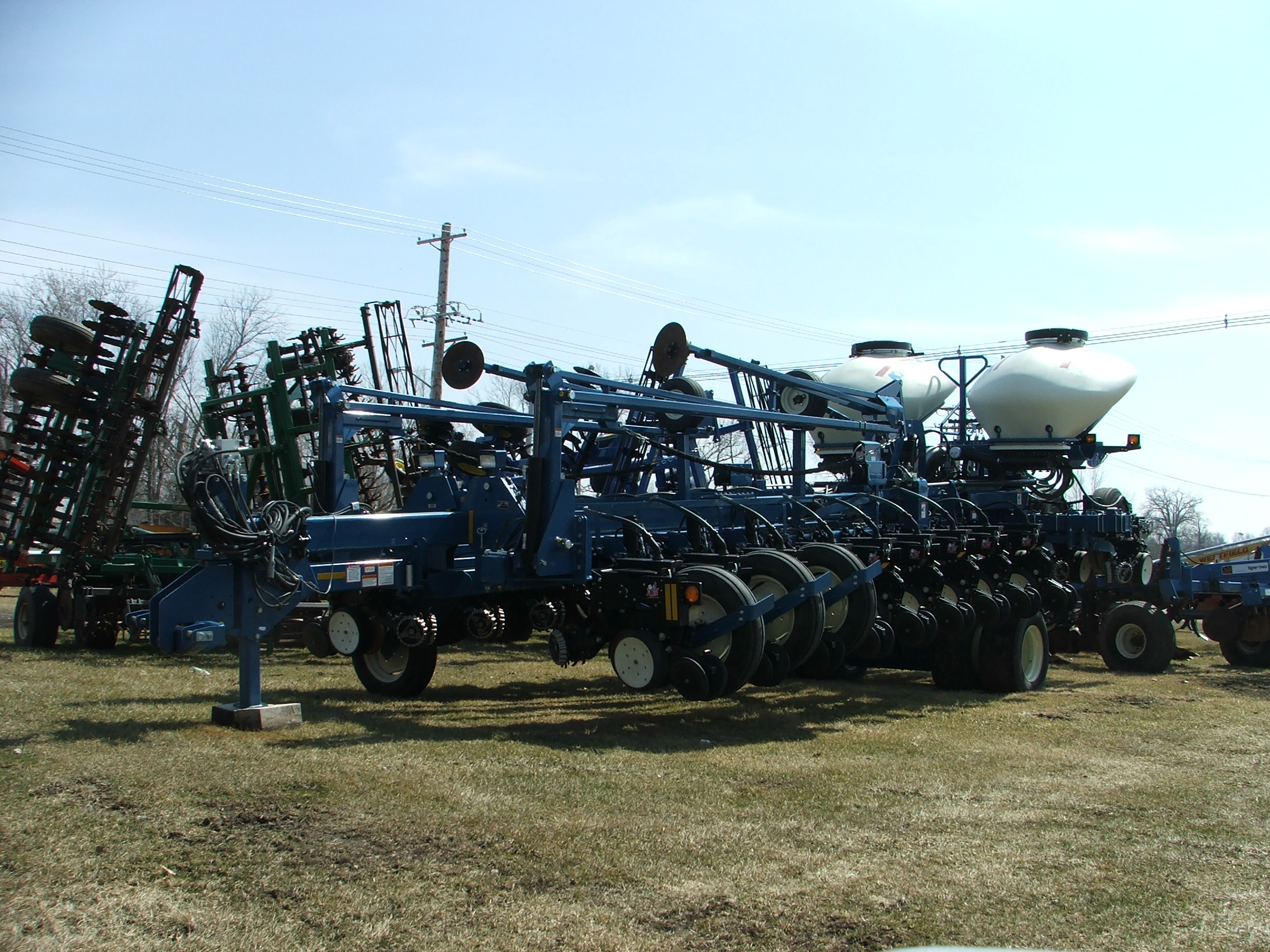 Kinze model 3700 planter folded for transport.